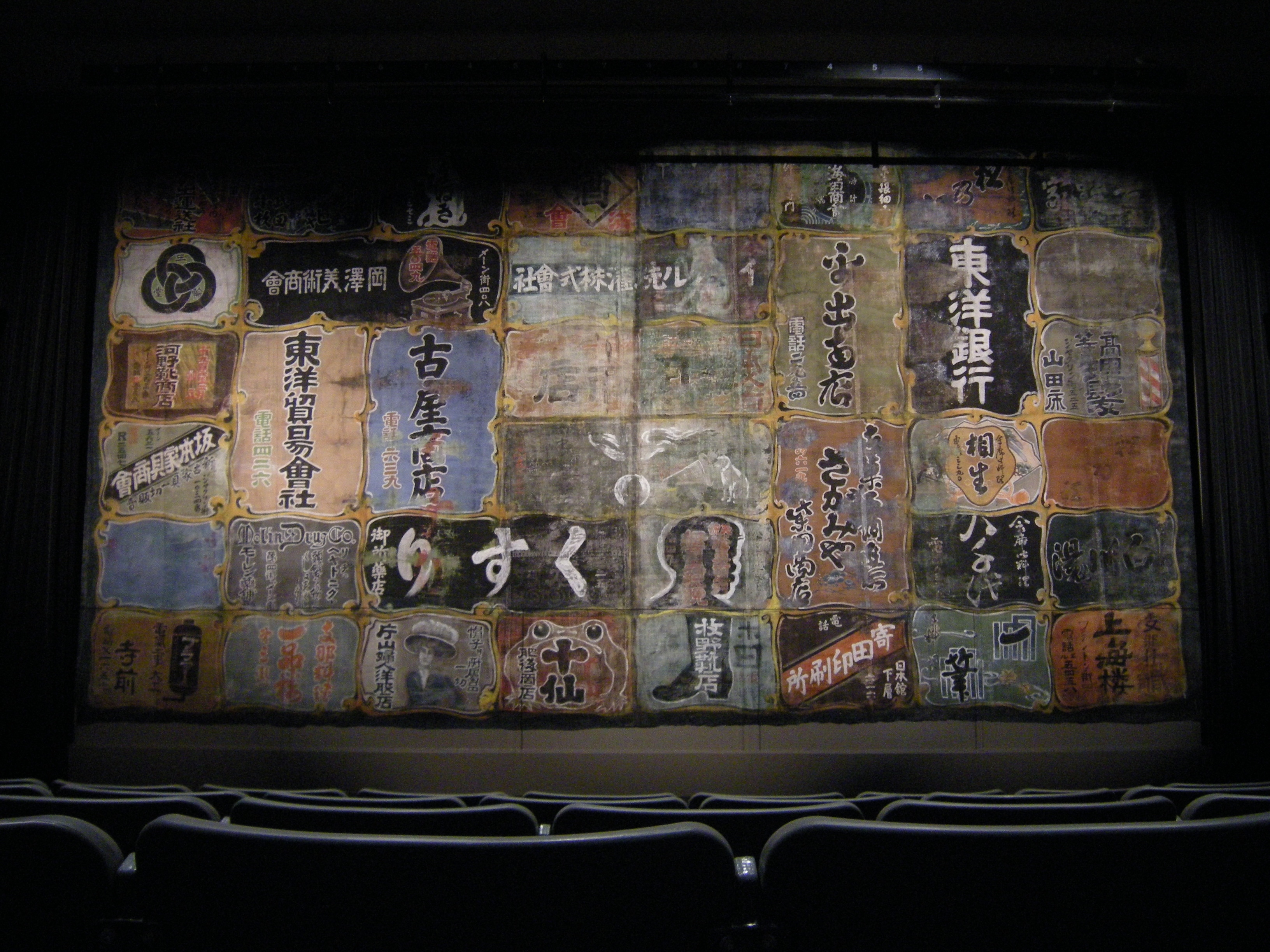 The stage curtain of Seattle, Washington's historic former Nippon Kan Theatre, now used in the Tateuchi Story Theater, Wing Luke Museum. The curtain dates originally from 1909–1915. For further information see Marc Ramirez, Nippon Kan's long-lost curtain back on stage, Seattle Times, May 19, 2008; online version modified May 20, 2008.